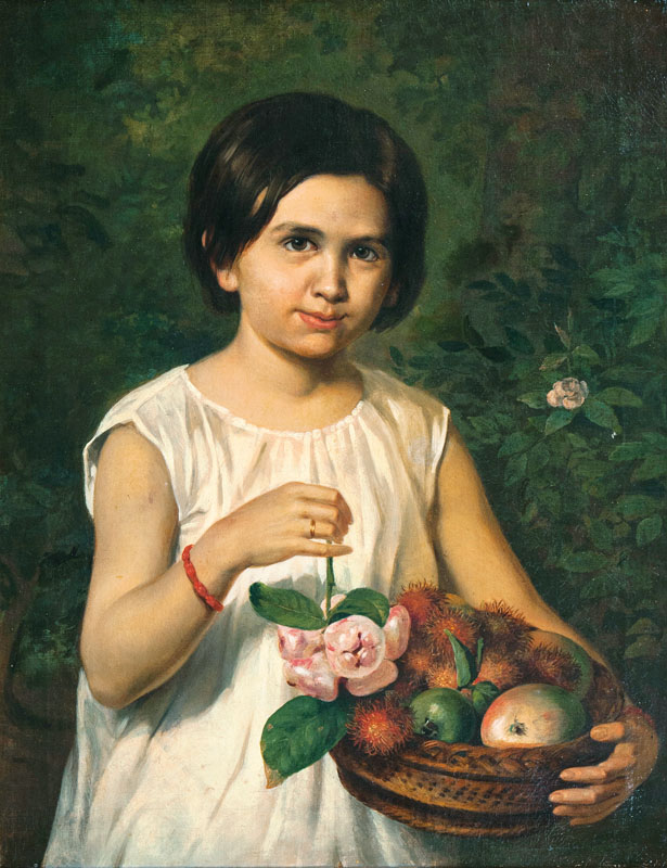 The girl holding a basket with Rambutan, Wax-Apples and other fruits